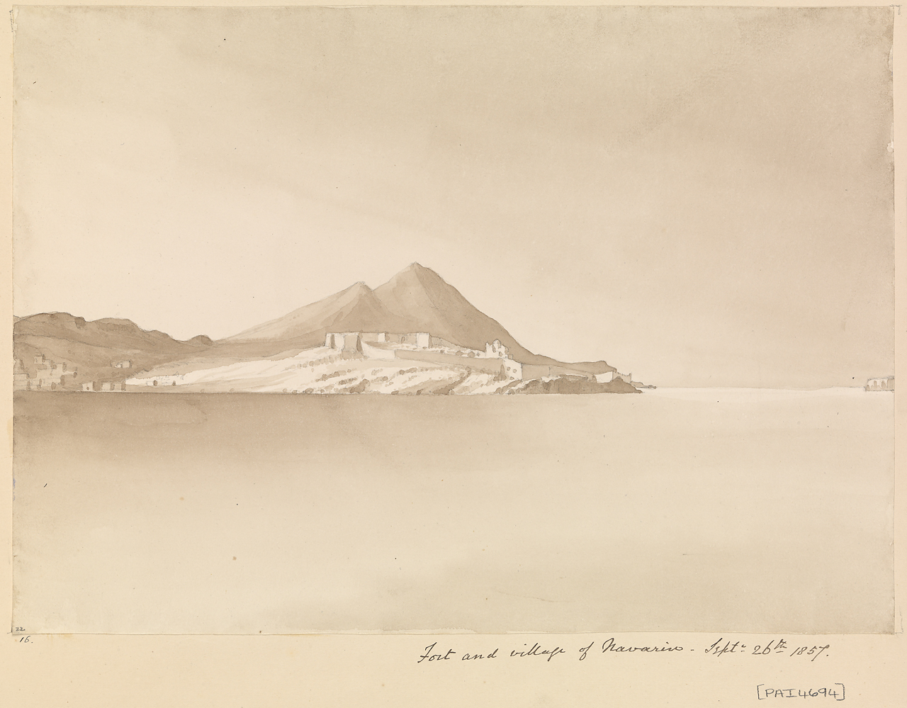 'Fort and village of Navarino [Pylos], Septr. 26th 1857' [Greece].